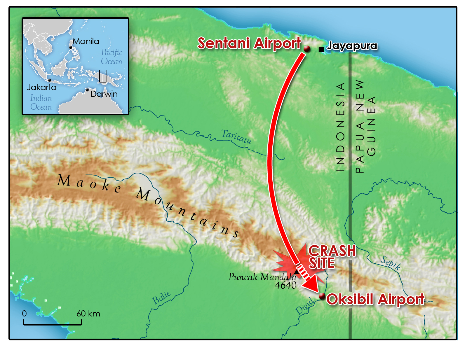 Map of Trigana Air 267 crash site in Papua, Indonesia